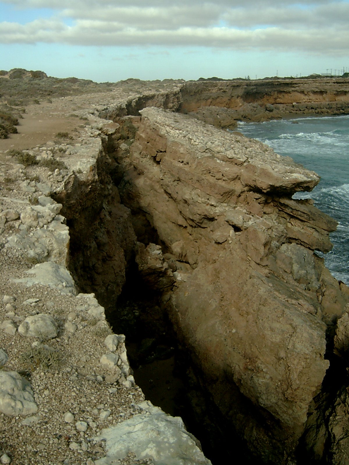 January 2007.